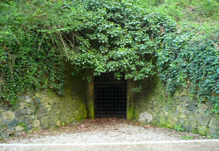 Mina Grott, built in Barcelona, close to the Vallvidrera dam, was designed as a water canal tunnel, later used as a rail tunnel, and nowadays used again as a canal tunnel